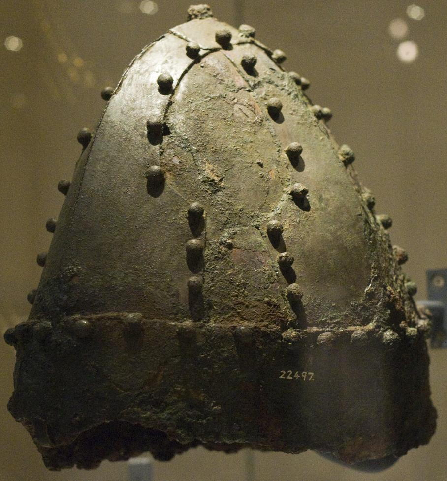 There were several different types of army helmet worn by Sassanian soldiers. This rare helmet likely resembled the tall headdresses (kulah) depicted on Sassanian portrait seals and dates to the 6th century AD. It was originally discovered at Nineveh in northern Iraq and is today located in the Persian Empire collection of the British Museum.